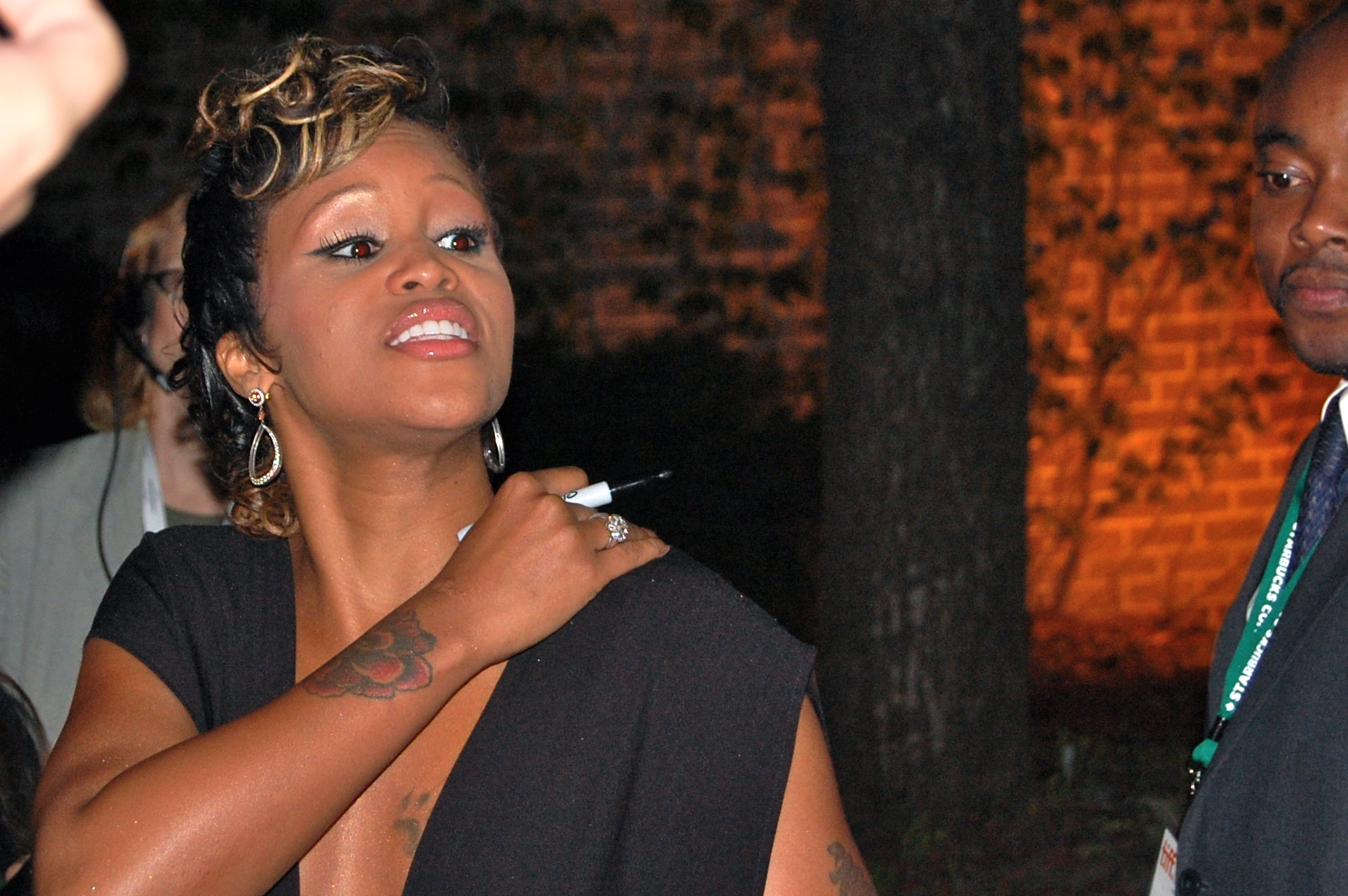 Whip It premiere - Ryerson Theatre - September 13, 2009